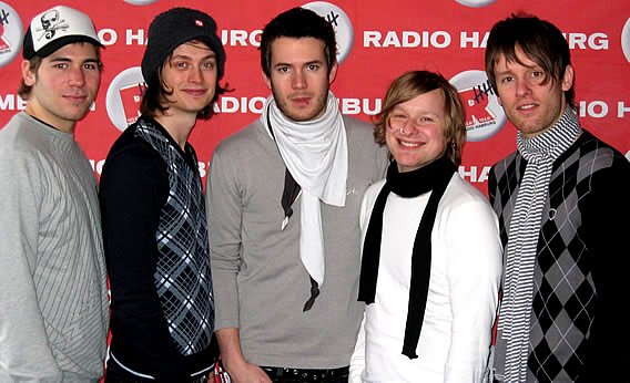 The band "Revolverheld" at the "Radio Hamburg Top 819"